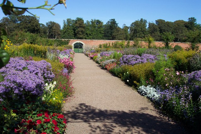 Herbaceous border in the walled garden at Floors Castle. In all its late-summer glory!